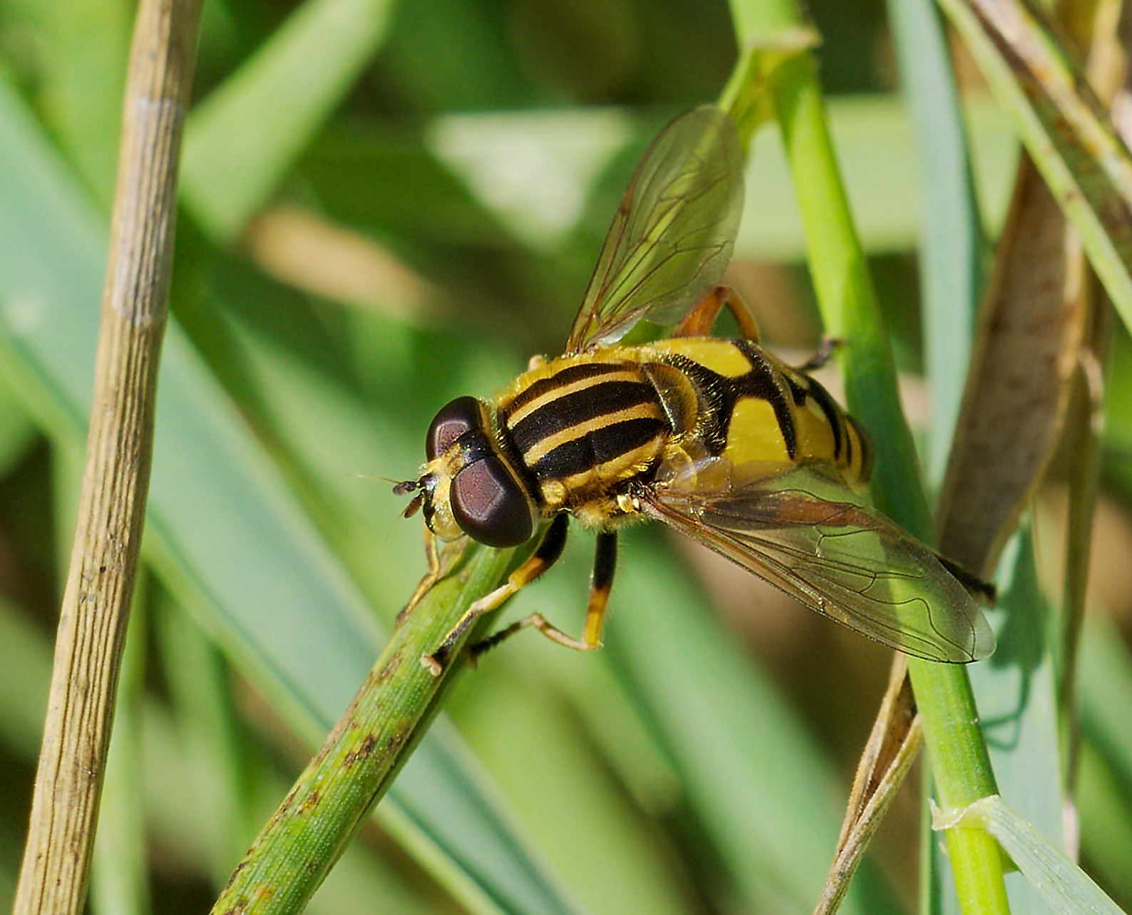 Sun Fly - Helophilus pendulus, male. Taken in Mannheim, Kirschgartshäuser Schläge by the Bruchgraben, Baden-Württemberg, Germany.